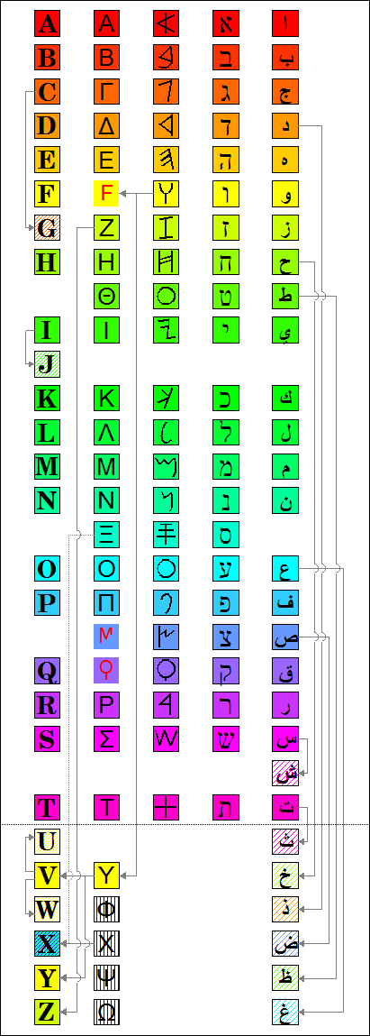 From left to right: Latin, Greek, Phoenician, Hebrew, Arabic.